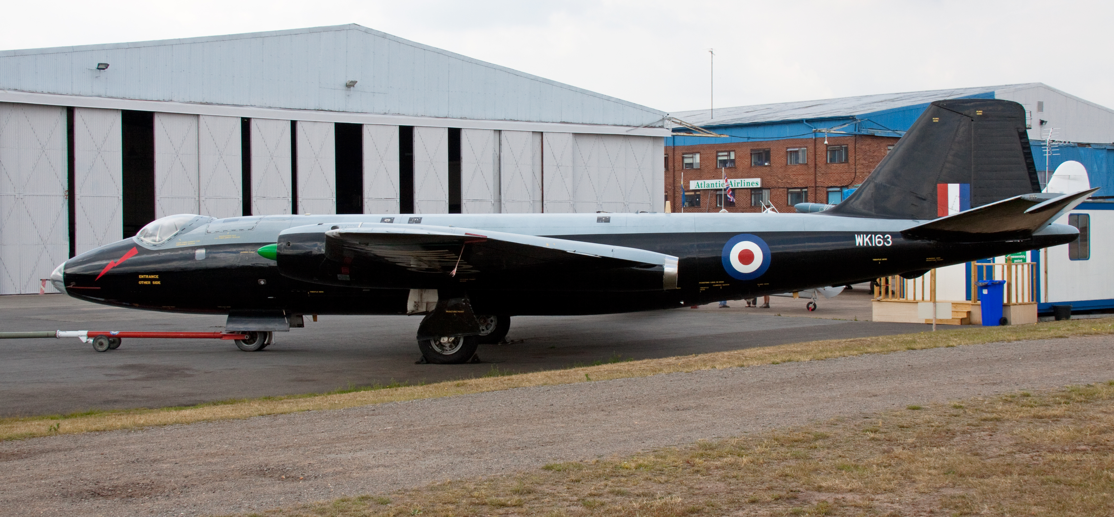 English Electric Canberra B2 G-BVWC 3